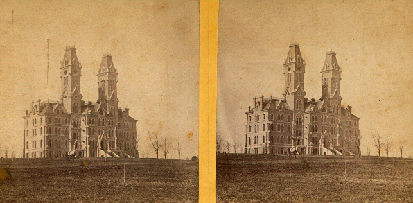 Stereocard of the main building (now Kirkland Hall) at Vanderbilt University in Nashville, Tennessee, United States, photographed in 1875